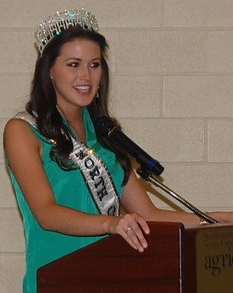 Sydney Perry speaking at the Seventh Congressional District Youth Summit in Lumberton, North Carolina.